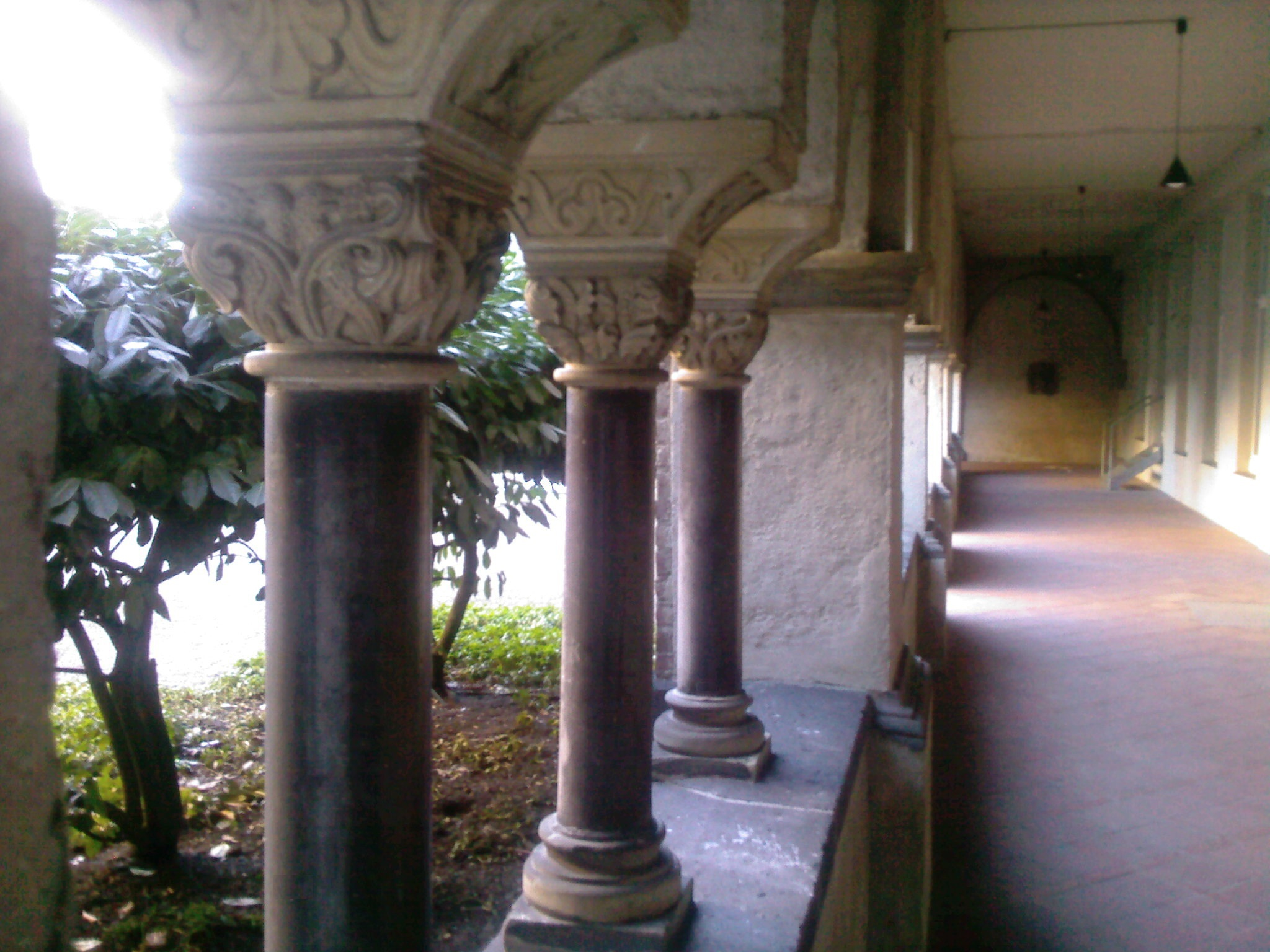 Cloisters of St. Maria im Kapitol, Cologne, Germany